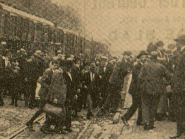 Tornado of 1925 in the Netherlands